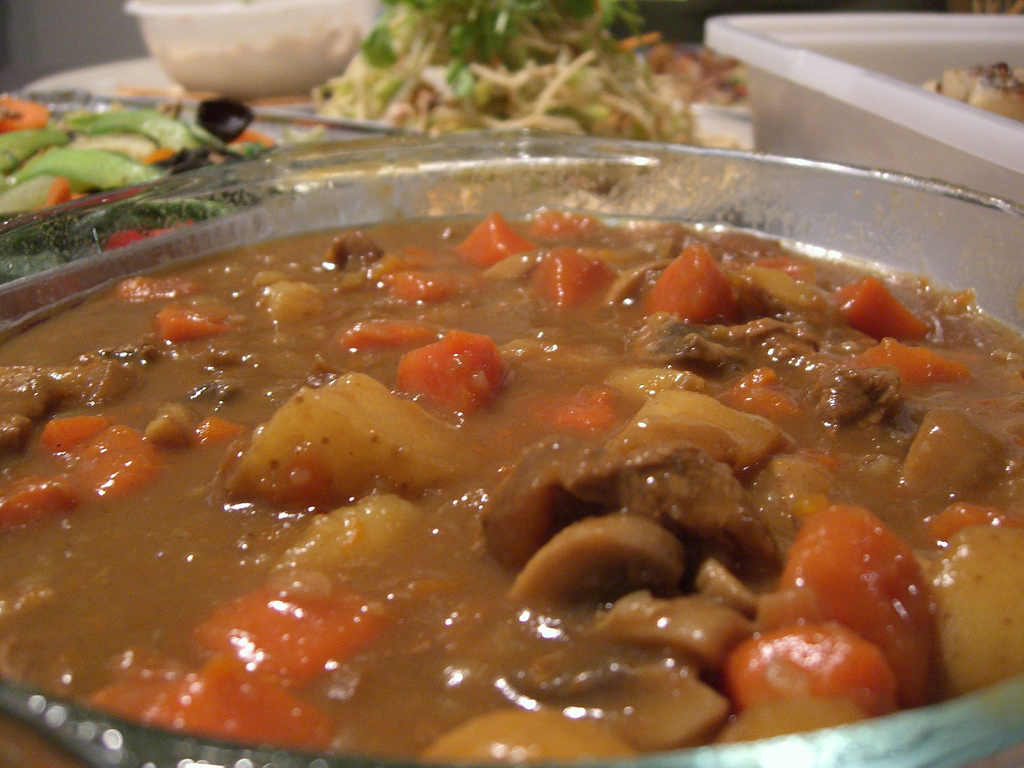 Shanny and Jaye's Japanese-style CurryShanny and Jaye's Japanese-style Curry